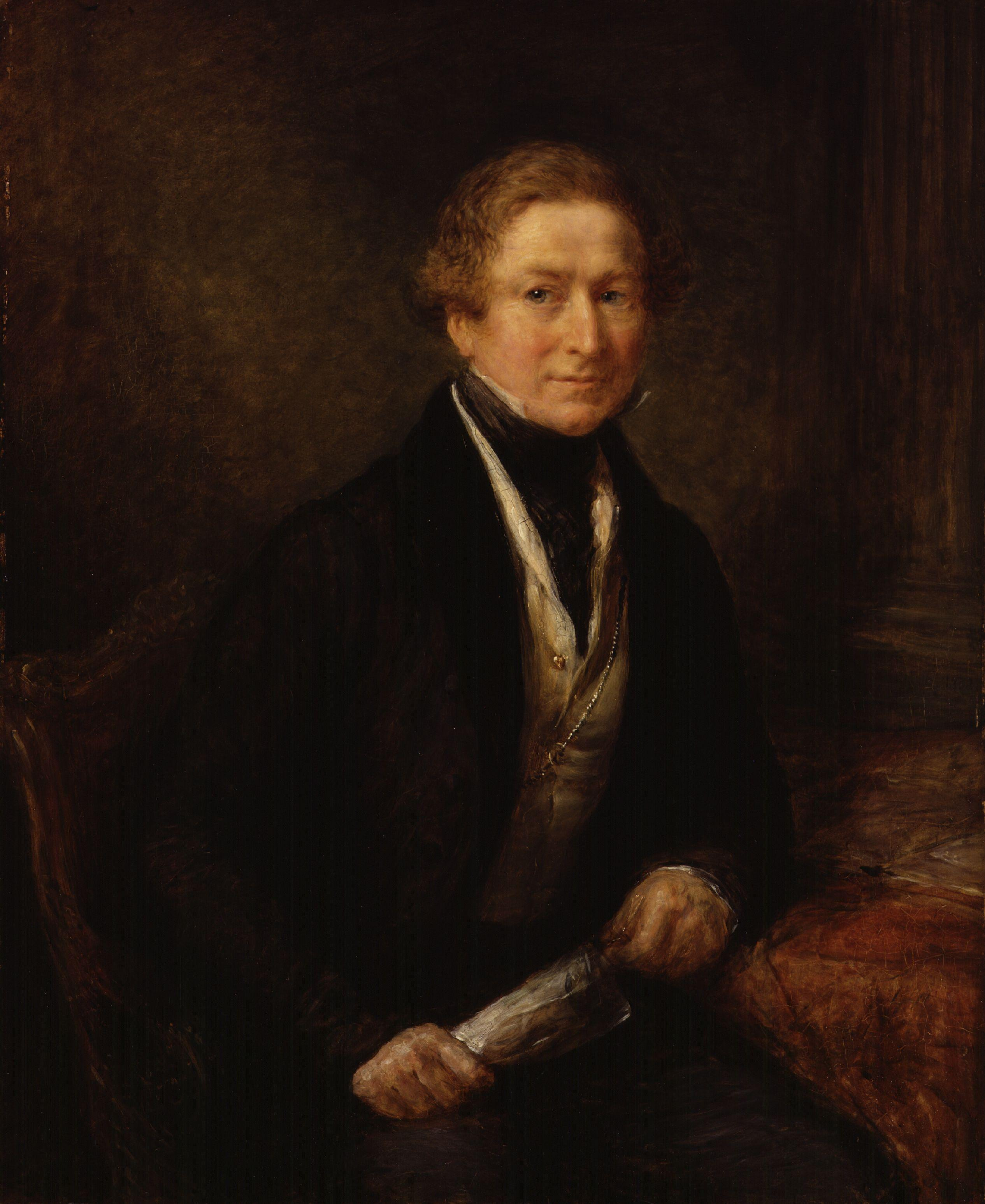 Sir Robert Peel, 2nd Bt, by John Linnell (died 1882). All images in this batch have been confirmed as author died before 1939 according to the official death date listed by the NPG.